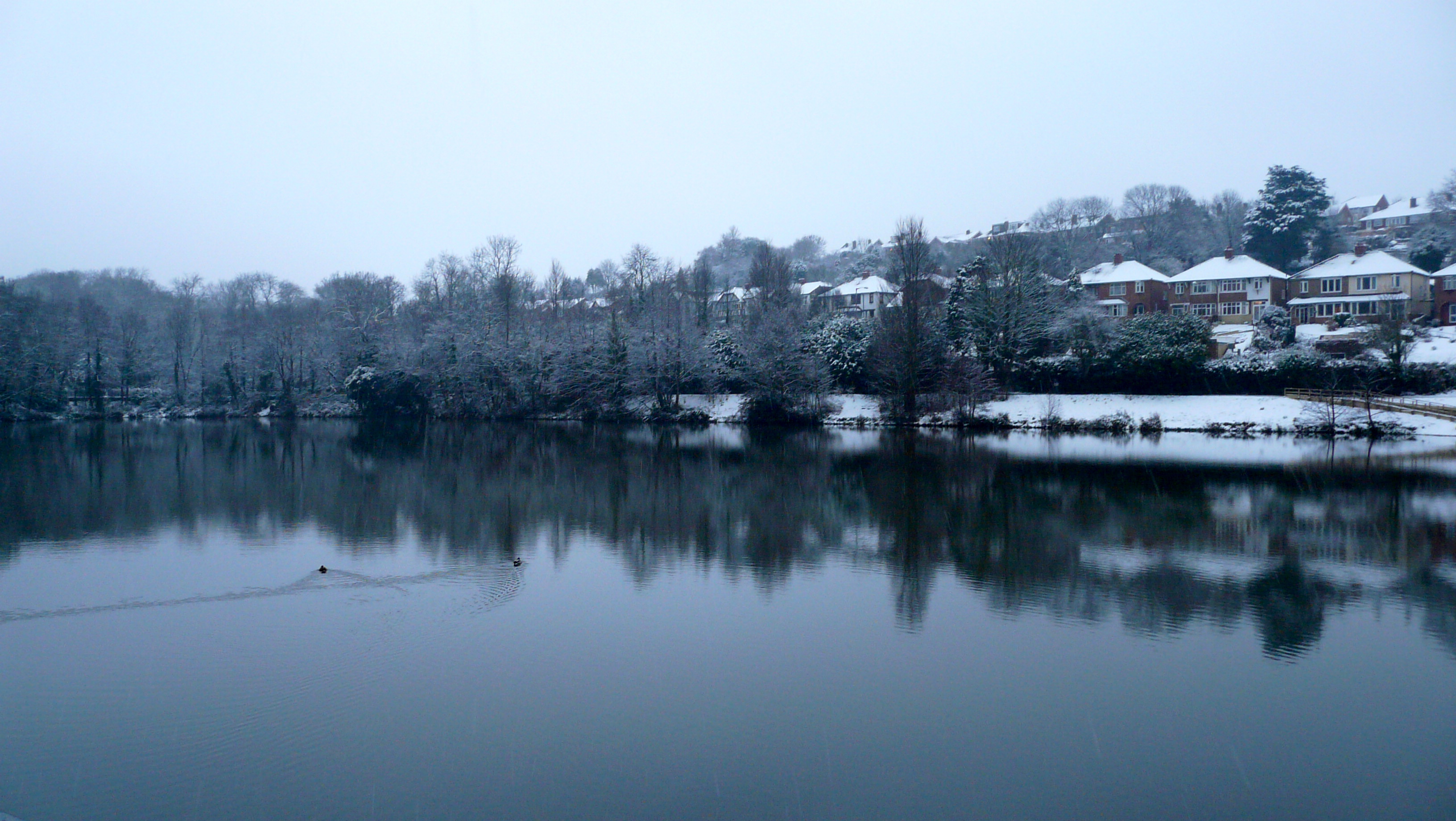 A picture of the buckshole reservoir located in Alexandra Park, Hastings, East Sussex.